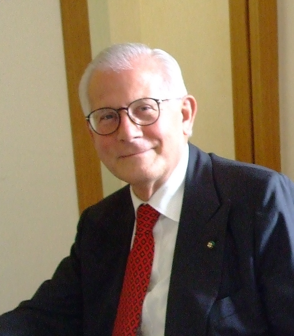 Andrea Monorchio on February 2010.